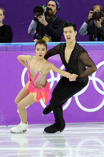 Photos – Olympics 2018 – Dance (WANG Shiyue LIU Xinyu CHN – 22nd Place)